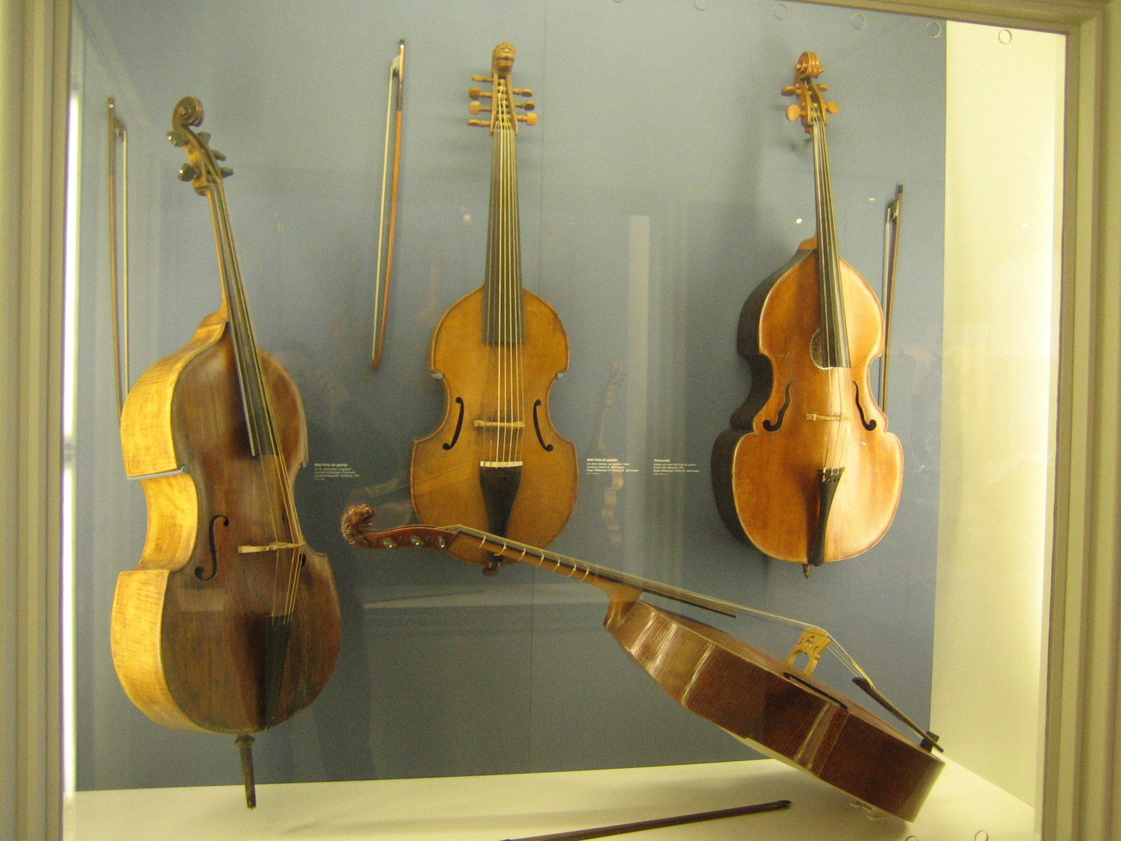 Viola da Gamba 1, Deutsches Museum description Viola da gamba The characteristic feature of the viola da gamba are the high ribs and the bent? upper bout, the flat angled back, and the slightly arched soundboard with C- holes. It was widely used throughout Europe from the 16th century to the 18th century, and was a favorite of "gentlemen". It was particularly popular in England. Famous compositions that are considered to be the earliest chamber music pieces in their ever right were written at this time. Joachim Tielke, the most important German gamba maker, lived and worked in Hamburg. He not only built the best sounding gambas, but also the most magni- ficently decorated instruments. One of these violas stems from his circle, but is very plain in its rendering. With the advent of the viloncello, the gamba lost its importance, and many were remade as violoncello.